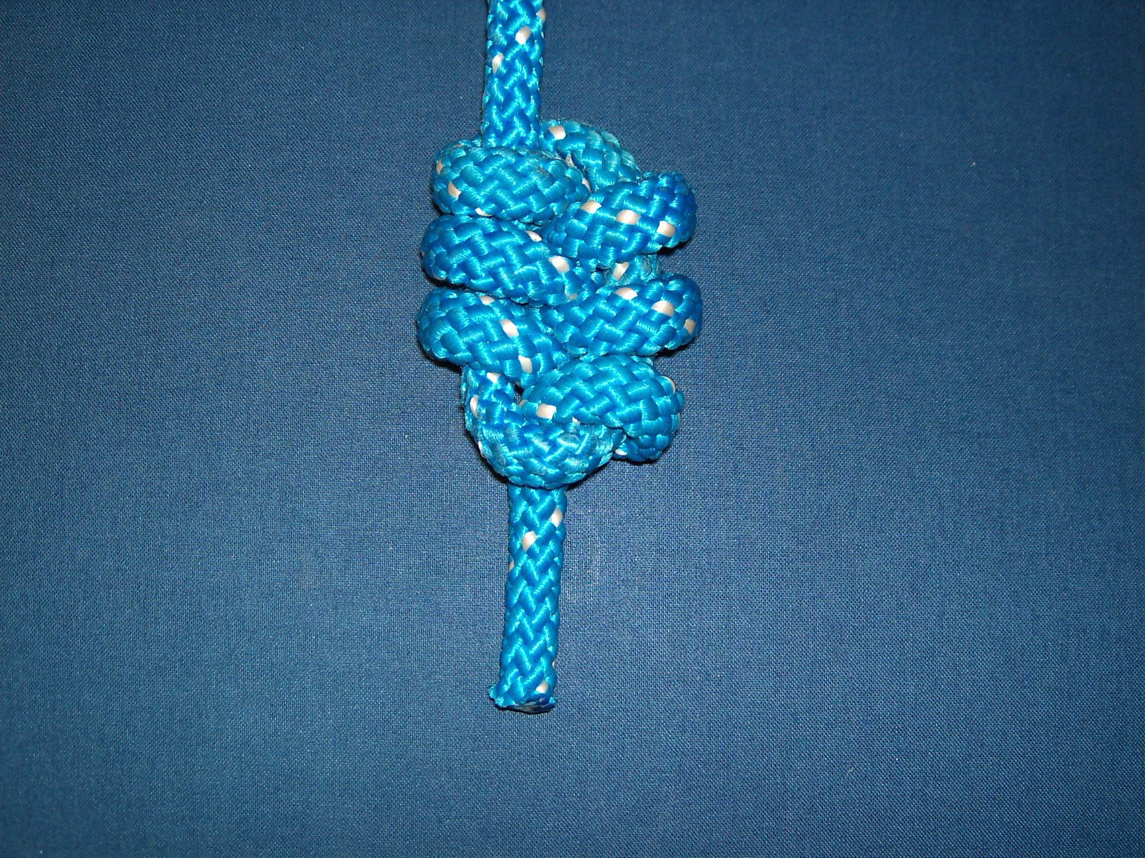 Extended figure-eight knot (tight)